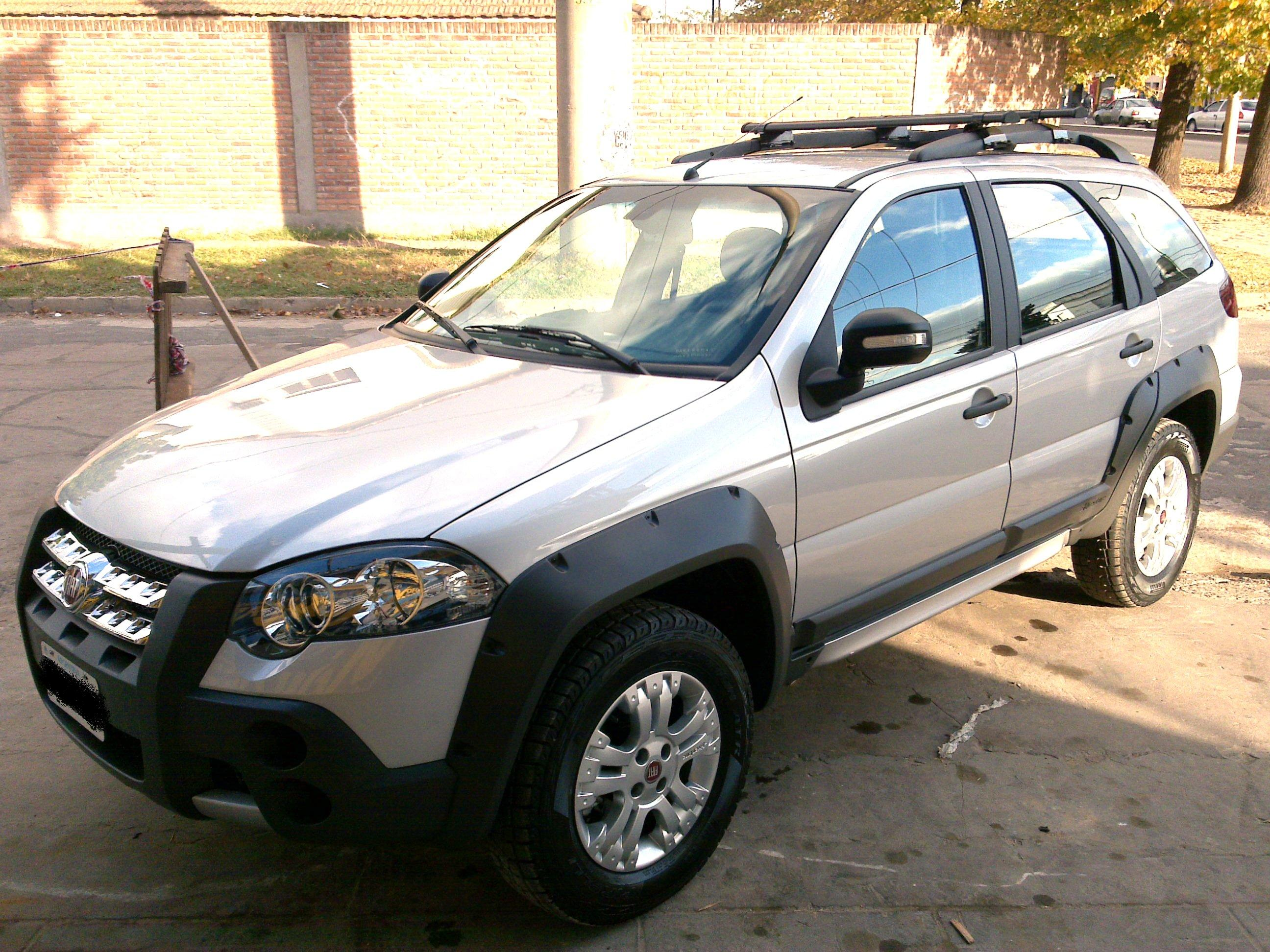 Fiat Palio Weekend Adventure Locker 2010.